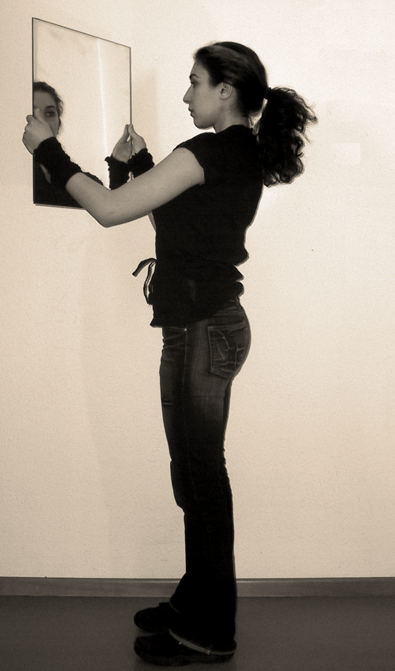 expressional behavior is observable